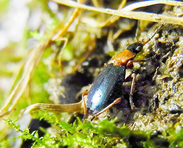 Lebia chlorocephala posed in natural surrounding